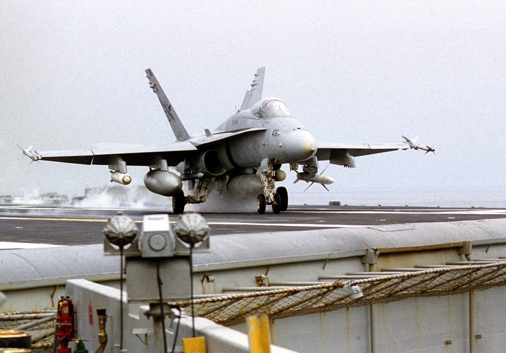 An F/A-18C Hornet launches from the waist catapult during flight operations on board the aircraft carrier USS Nimitz (CVN 68) in the Persian Gulf on Nov. 11, 1997. The Nimitz and embarked Carrier Air Wing 9 are operating in the Persian Gulf in support of the U.S. and coalition enforcement of the no-fly-zone over Southern Iraq. The Hornet is armed with AIM-9 Sidewinder heat-seeking, short-range air-to-air missiles, AIM-7 Sparrow radar-guided air-to-air missiles, Rockeye cluster bombs, and the AGM-88 High Speed Anti-Radiation missile (HARM), used as an air-to-ground weapon to seek out and destroy enemy radar equipped air defense systems. The Hornet is assigned to Strike Fighter Squadron 147, Naval Air Station Lemoore, Calif.